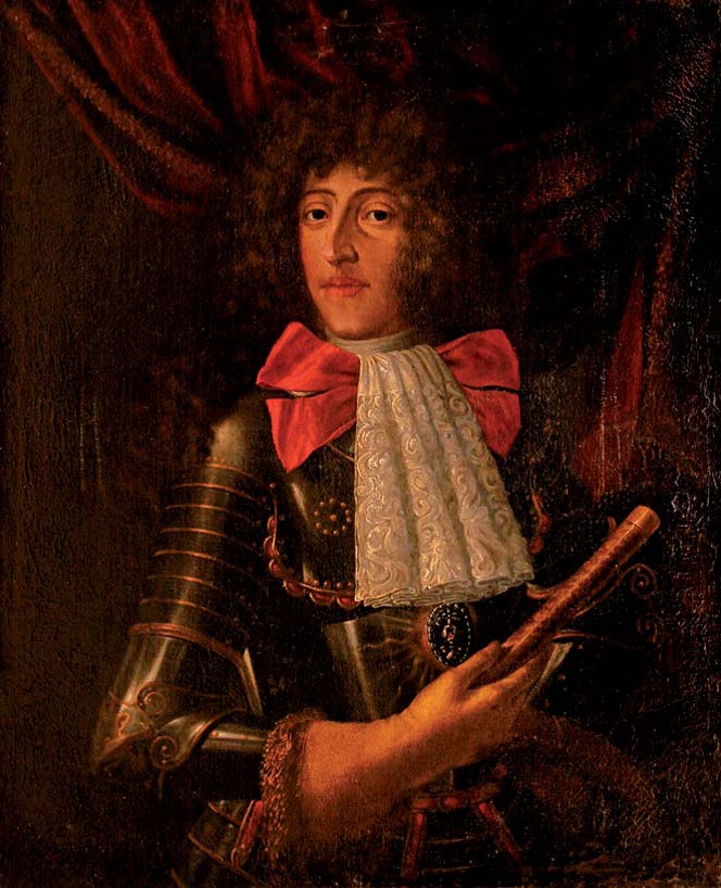 Portrait of Ferdinando Carlo Gonzaga, Duke of Mantua and Montferrat (1652-1708)